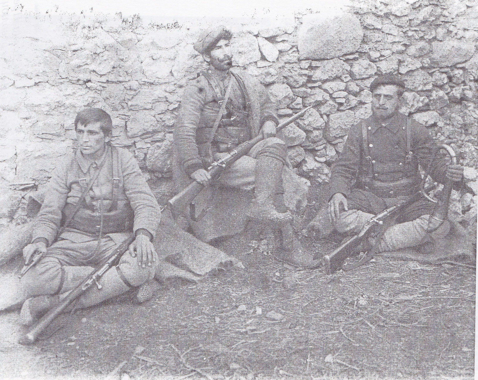 revolutionaries from Bulgaria, picture taken in Kosinets